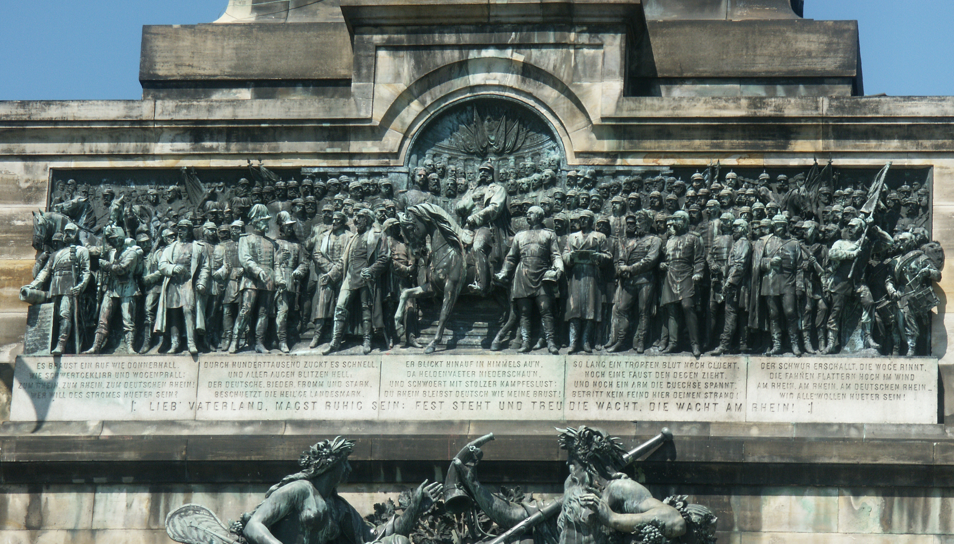 Niederwald memorial near Rüdesheim, Germany, 2 photos stitched